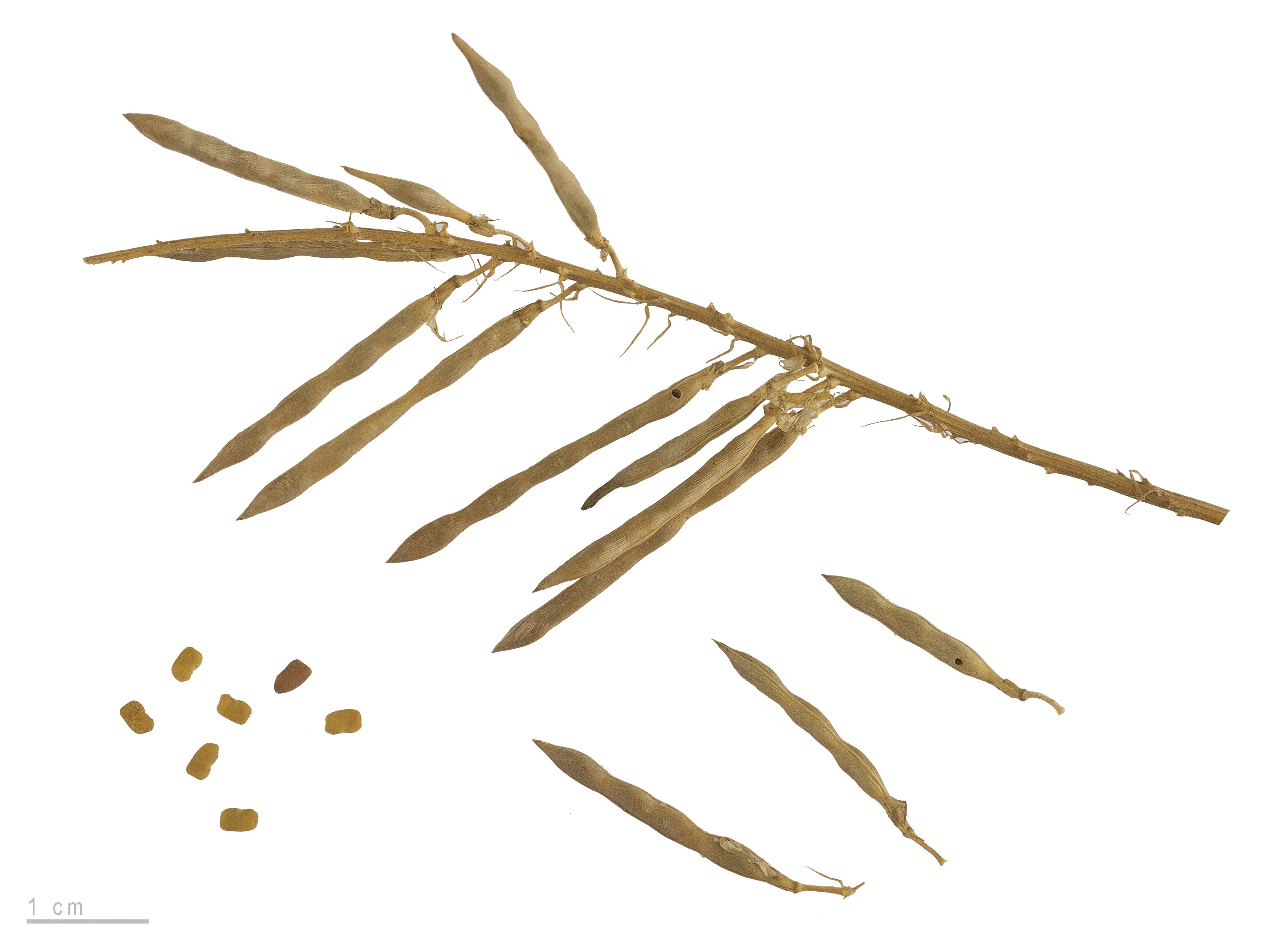 galega , fruits and seeds